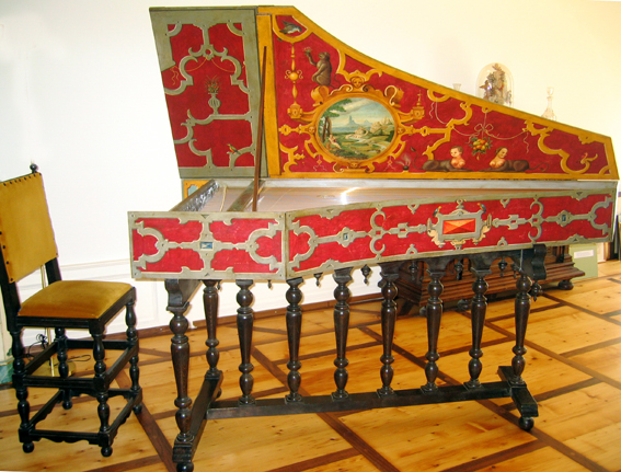 A single-manual Flemish harpsichord of the Ruckers school, signed Marc Ducornet, Paris 2003 [1]. GG-d’’’, 56 notes + 1 note for 440 position, 2X8’, buff stop, traditional Flemish keyboard with bone slipped naturals and arcades with leather decoration, oak accidentals. Stop levers through the nameboard. Decorative rose on the soundboard. Length 209 cm, width 85.8 cm, weight about 55 kg. Painted throughout by Alison Woolley of Florence [2], with designs based on the Claviorganum by Lodewyk Theewes of 1579 in the Victoria and Albert Museum, London [3], being faux-iron strapwork on an ox-blood base, the inside of the lid with sphinx, birds, a monkey, and an cartouche of Orpheus taming the animals in a mountainous landscape. On an oak stand based on a painting Portrait de famille by Gillis van Tilborgh, ca 1650-1675, in the Musées Royaux des Beaux-Arts et d'Archéologie, Brussels [4].